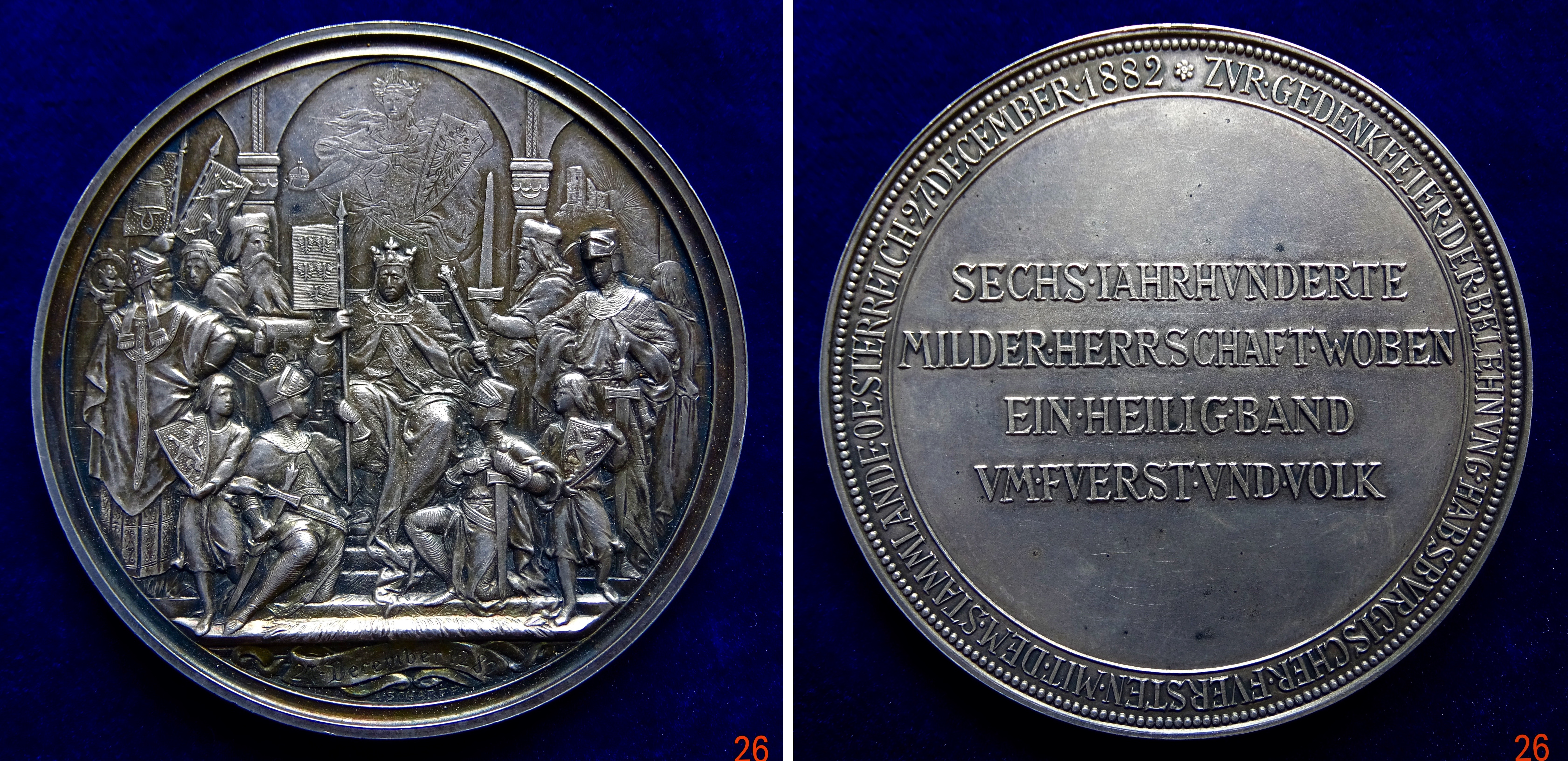 A rare medallion d. = 61 mm. 96.93 g Ag. Rudolf I of Germany, 1273 - 1291 At this Hoftag (imperial diet) Rudolf invested his sons, Albert and Rudolf II, with the duchies of Austria and Styria and so laid the foundation of the House of Habsburg. The King of Germany (King of the Romans) Rudolf I at the Hoftag in Augsburg. On scroll in exergue: "27. December 1282"/ 4 lines: "SECHS JAHRHUNDERTE MILDER HERRSCHAFT WOBEN EIN HEILIG BAND VM FVERST VND VOLK", surrounding: "* ZVR GEDENKFEIER DER BELEHNVNG HABSBVRGISCHER FVERSTEN MIT DEM STAMMLANDE OESTERREICH 27. DECEMBER 1882 *". Hallmark at edge: "A". Wurzbach 6926 (Bronze). Medallist: (Anton) Scharff, 1845 Wien, Austria - 1903 Brünn, the second largest city in the Czech Republic Condition: EXTREMELY FINE, beautiful old patina.